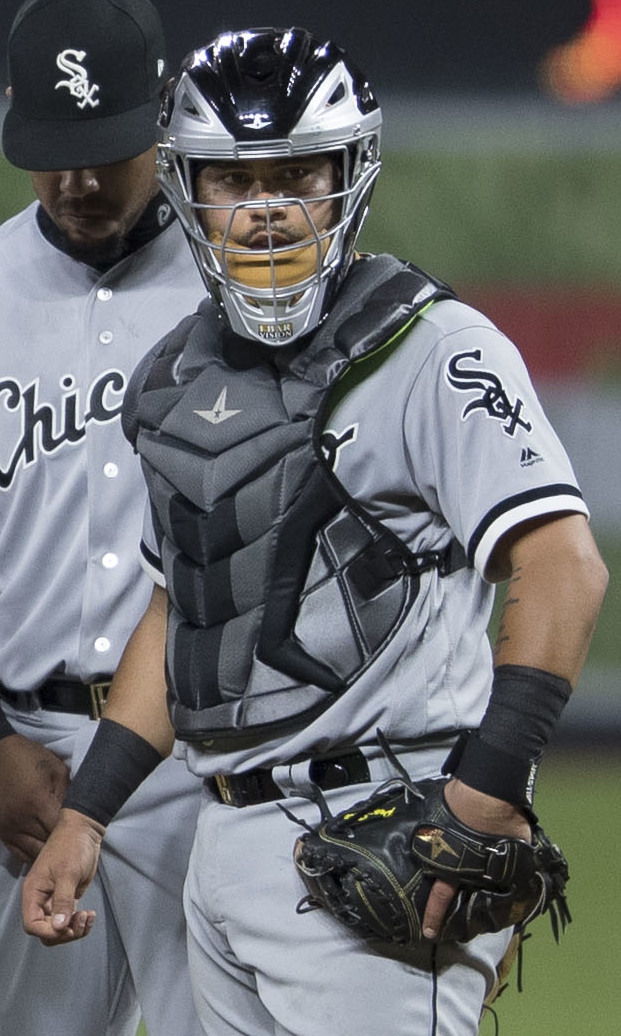 White Sox at Orioles 5/5/17